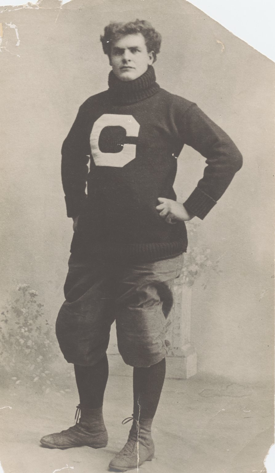 Glenn Scobey "Pop" Warner in a Cornell Football uniform, ca. 1894